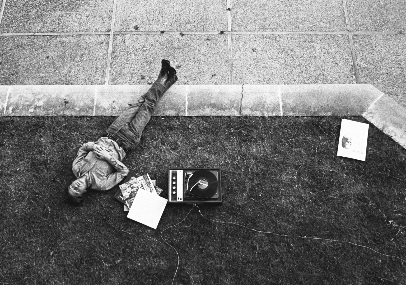 This was one of the first photos I shot on campus, and it remains my favorite. I have a poster print of it hanging on the wall at home. The record he's listening to is Yes' self-titled debut album from 1969, a couple of years before Yes had its first big hit, "Roundabout." I myself did not become a Yes fan until 1975, when my med school roommate, Tom Grabenstein, played the cassette tape in his VW Beetle during a vacation trip we took to to Black Mesa State Park in far west Oklahoma. Since then, I have been a rabid fan of the group in its many incarnations. In 2010, this photo was used in the onstage video that accompanied the performance of the song "Jazz Man" by Carole King in her "Troubadour Reunion" tour with James Taylor. Even though the photo was in the Creative Commons, the production team courteously asked me for permission to use it, which of course I enthusiastically agreed to.